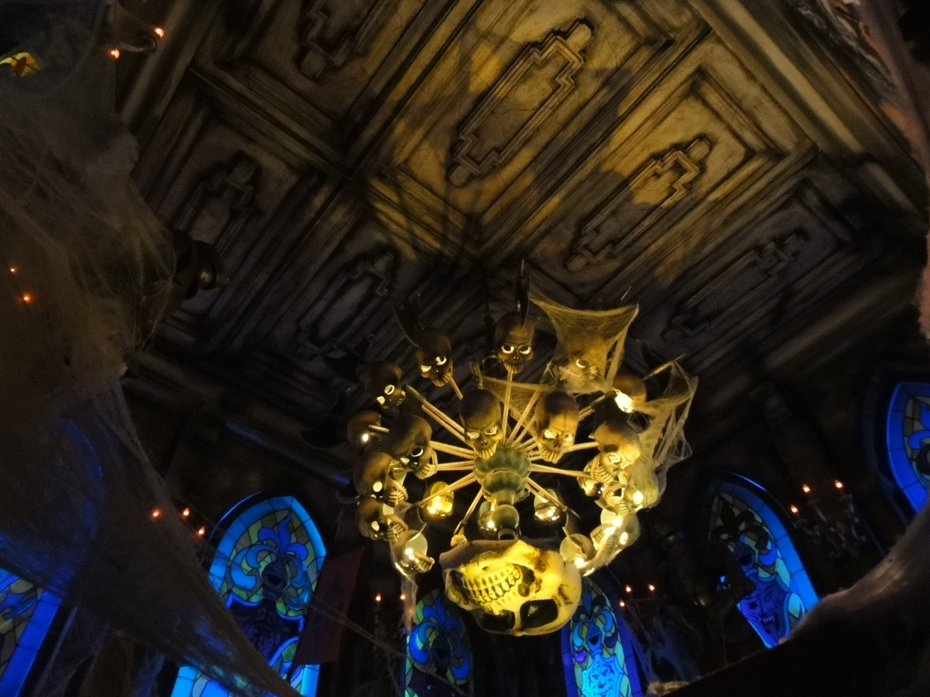 Ghost Castle, Europa-Park, Rust, Baden-Württemberg, Germany.